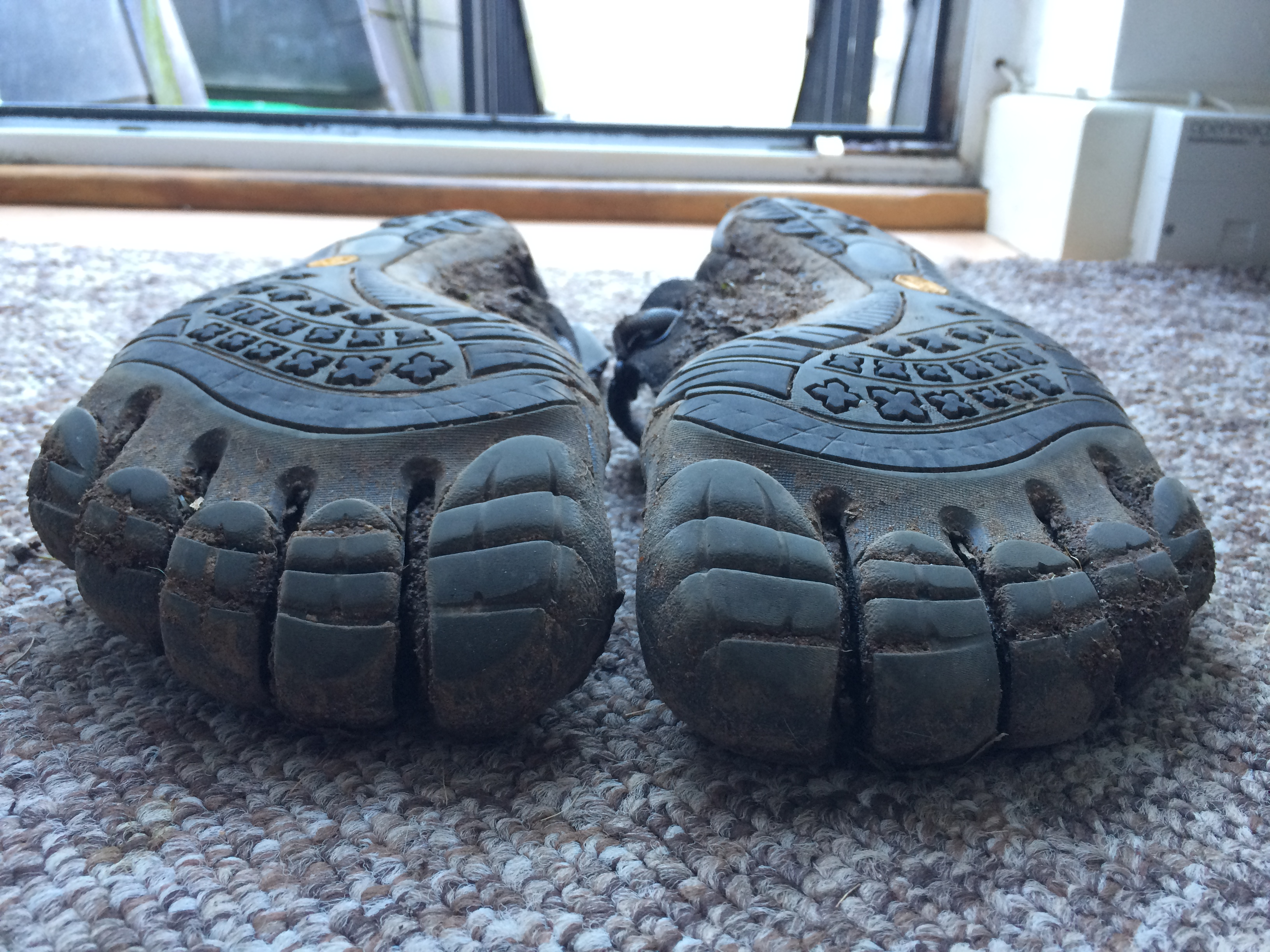 Vibram shoes, close up